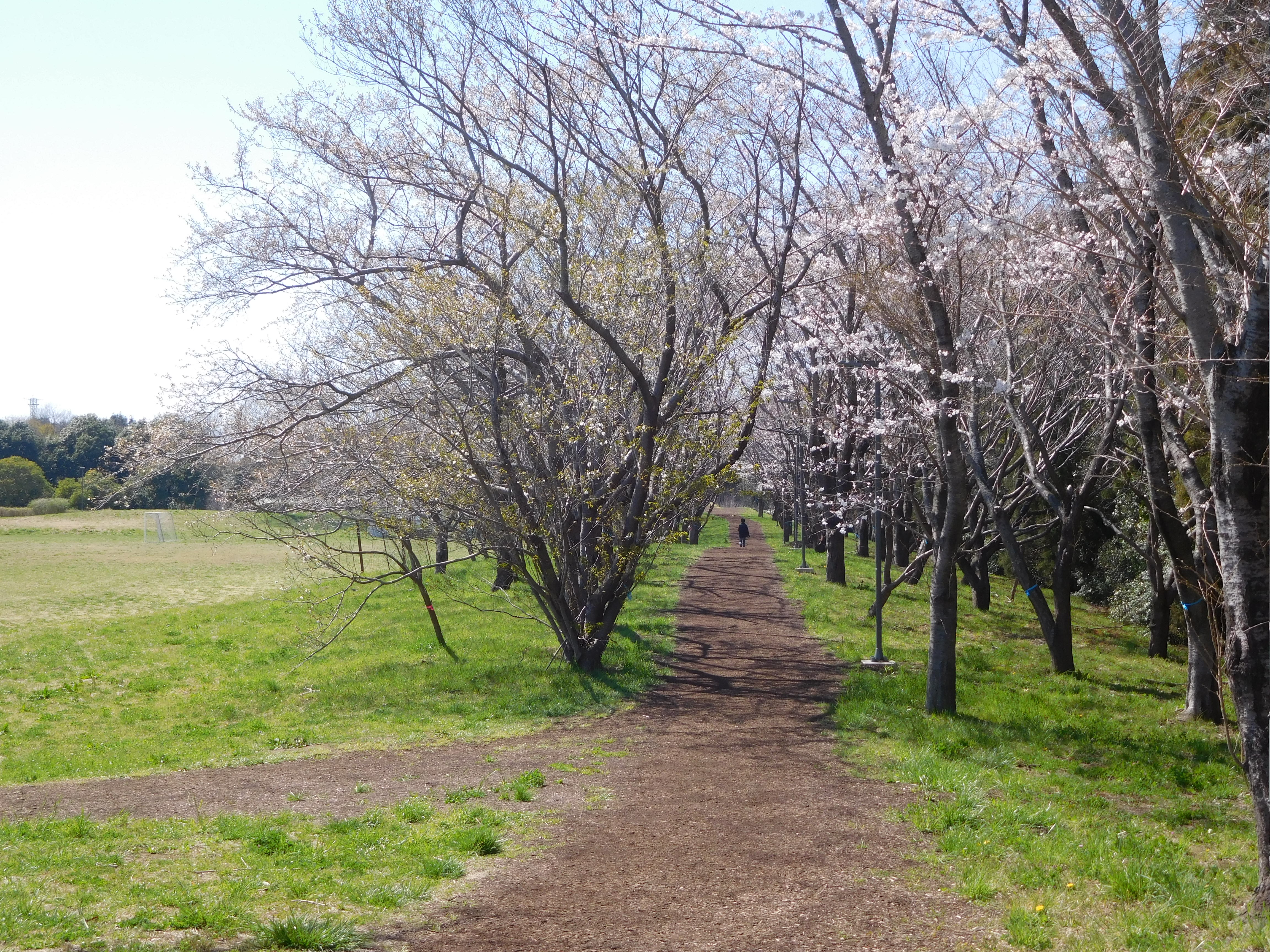 This is Cross Country Course, University of Tsukuba, Ibaraki, Japan.